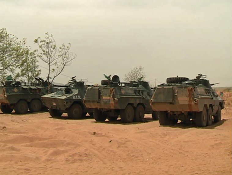 Military vehicles [Ratels of the BIR] are seen in far northern Cameroon, Jan. 17 2019.